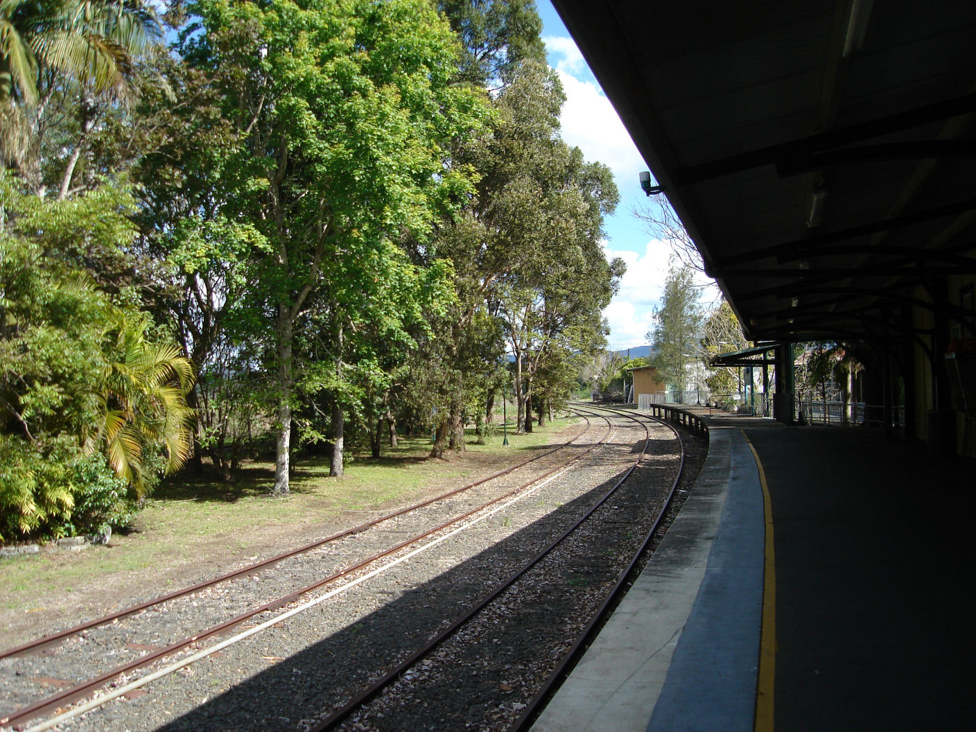 Abandoned Line Murwillumbah Railway Station